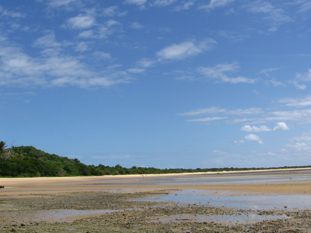 One of the five types of mangrove ecosystems found on Inhaca Island